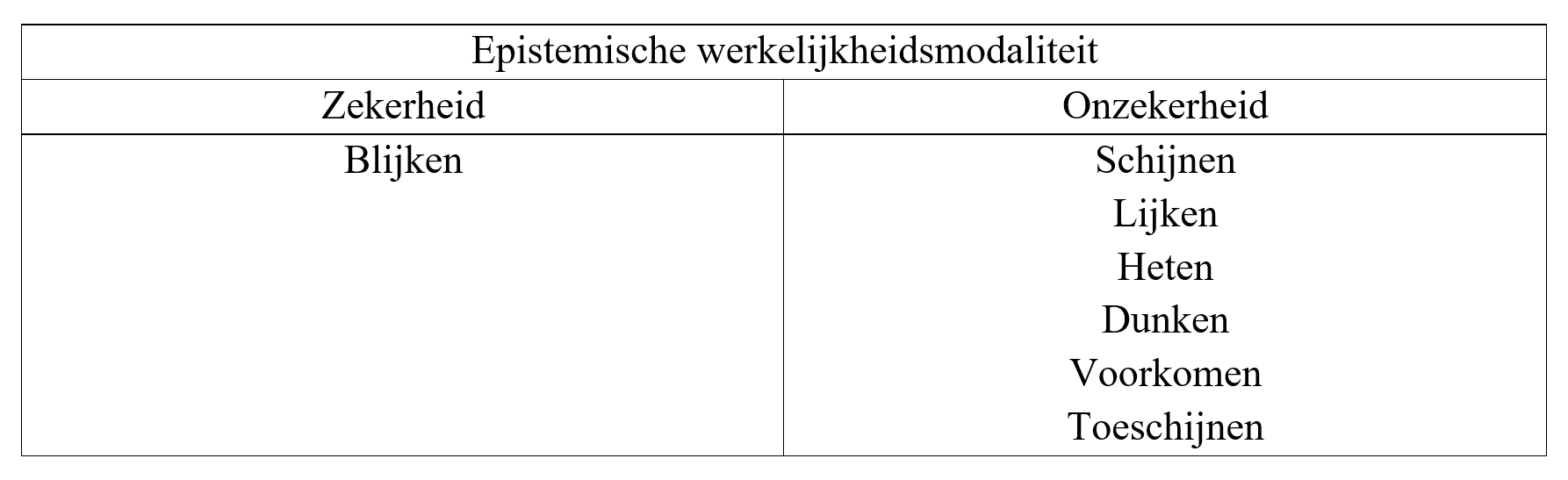 Epistemic modal auxiliaries